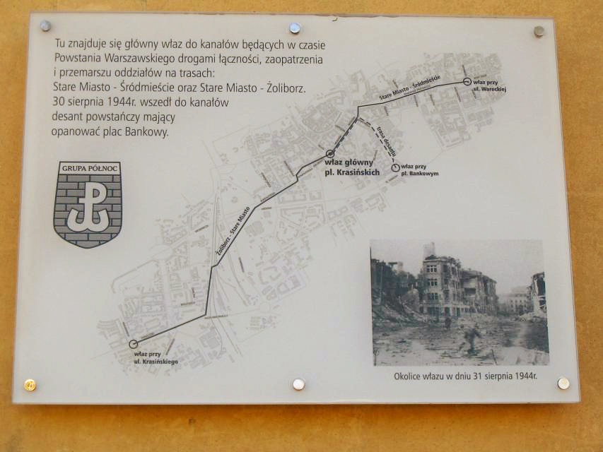 Map of sewers used by insurgents. Source: Image:Uprising_sewers.jpg